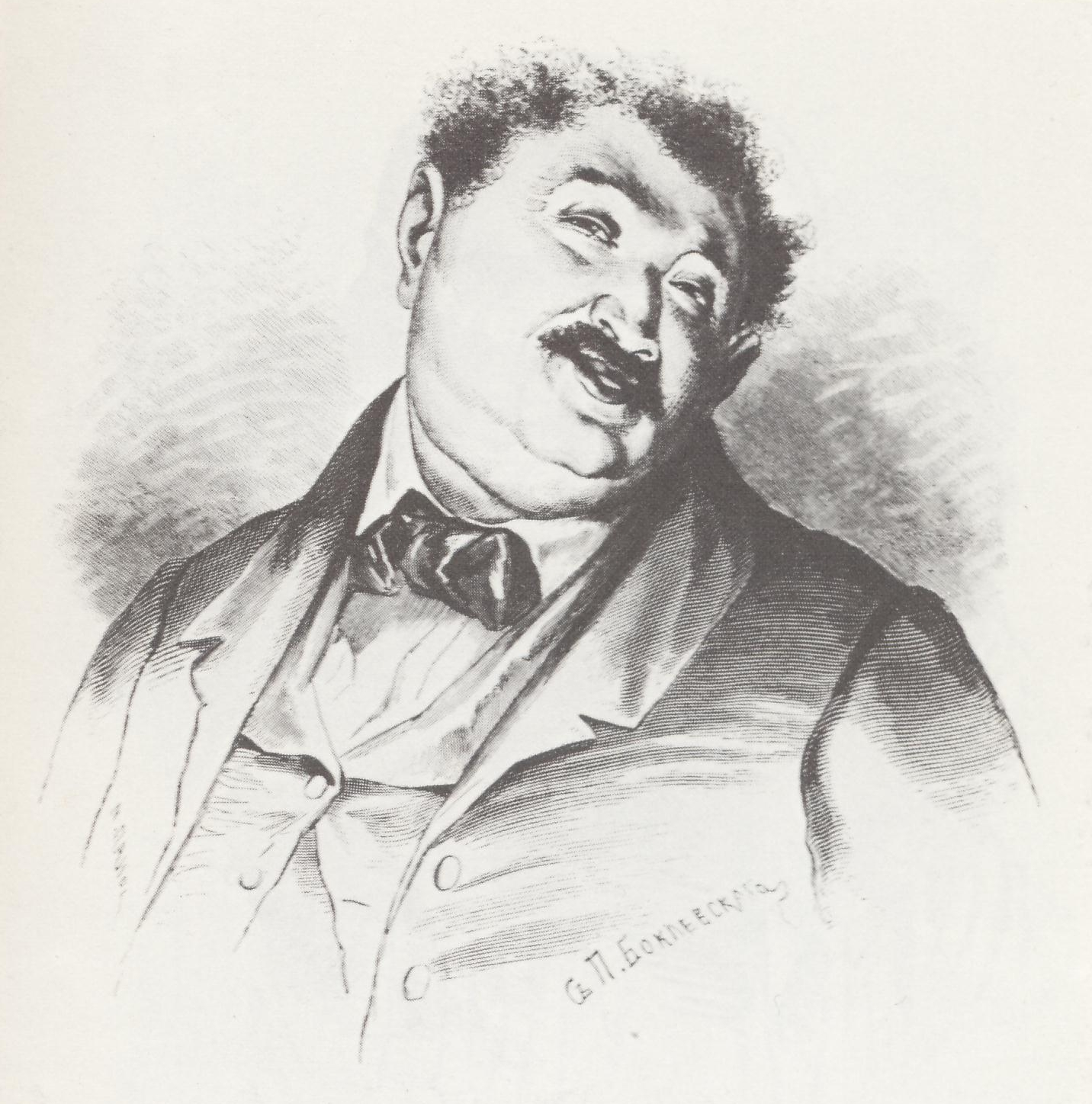 Manilov. Illustration for Nikolai Gogol's Dead Souls